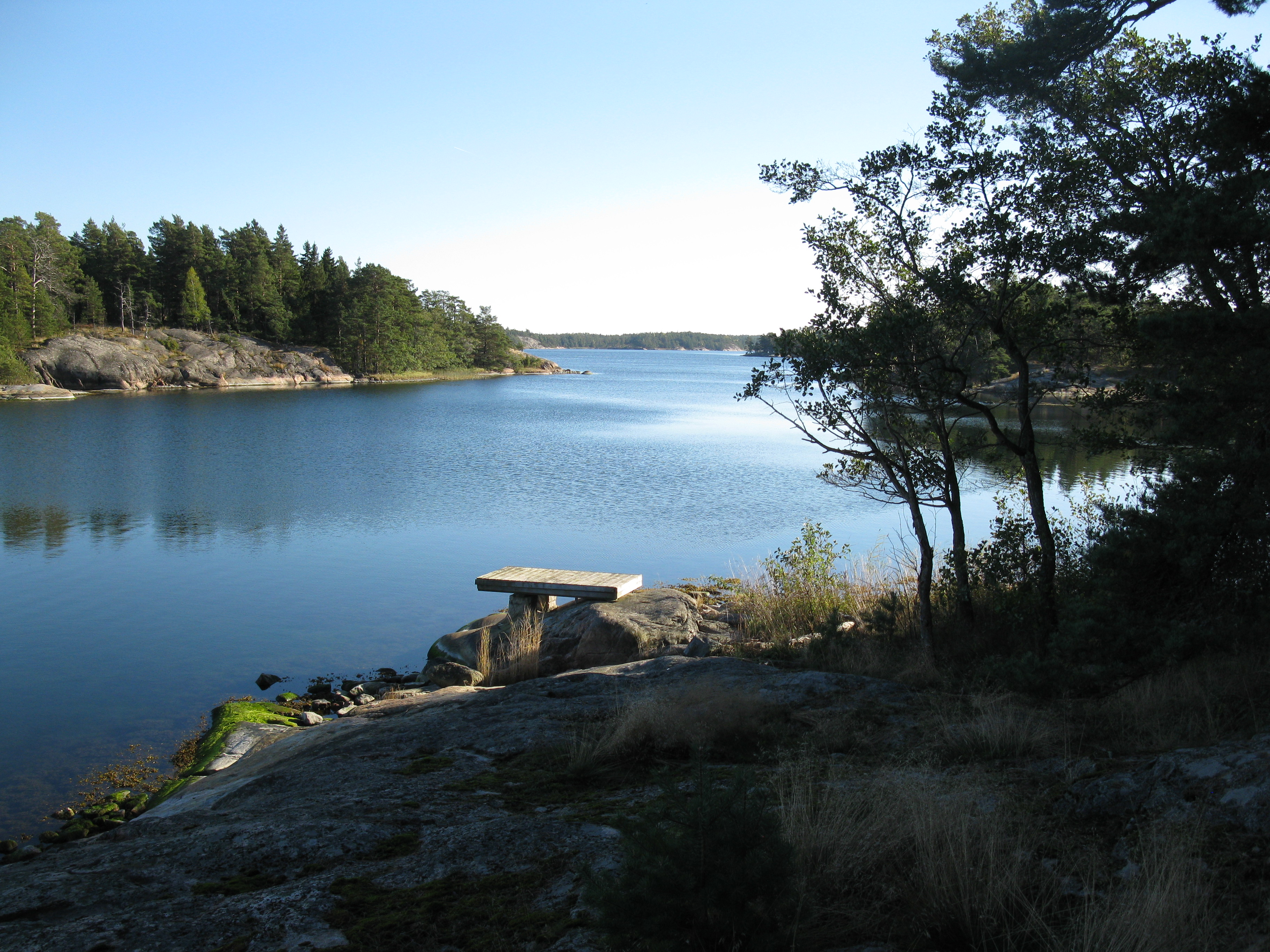 Cliffs of Krogarudden in Purunpää, Dragsfjärd, Kimitoön, Finland